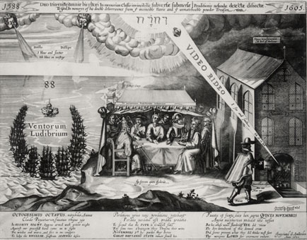 Anti-Catholic engraving combining the Spanish Armada and Gunpowder Plot, as the Double Deliverance.